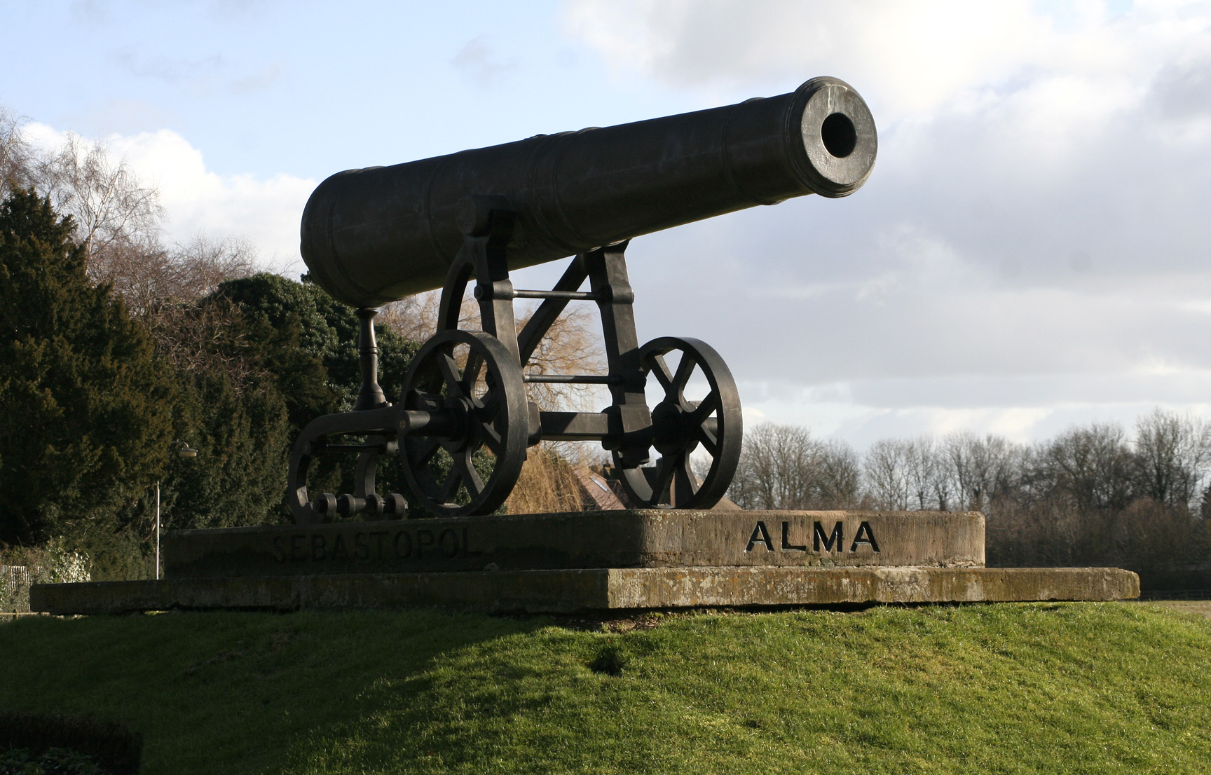 Cannon